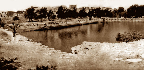 Mamilla reservoir in Jerusalem, Israel